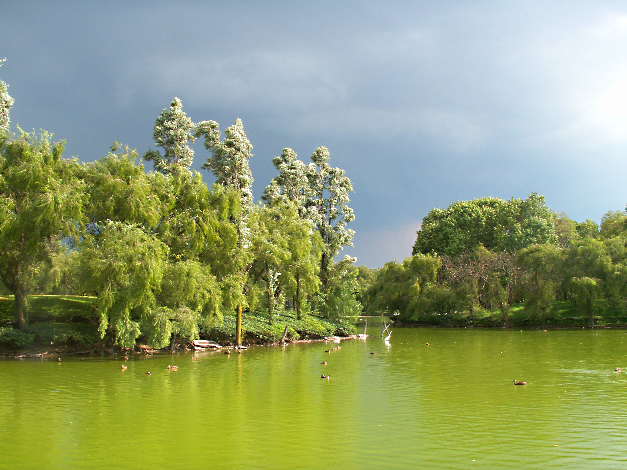 Pond in Parque Tezozómoc — a park in the Azcapotzalco district, Mexico City (México, D. F.).